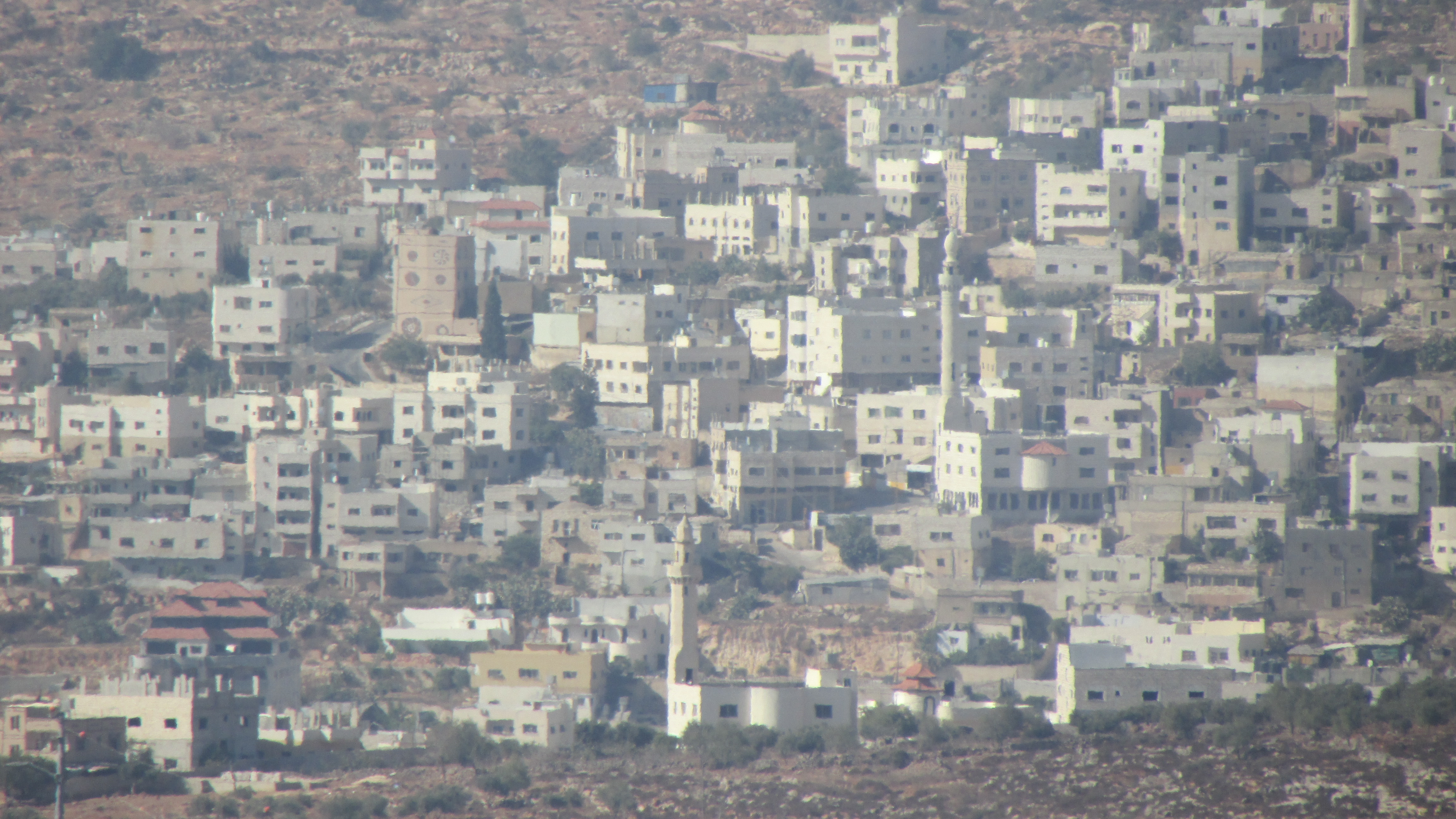 Aqraba, Nablus from the sourth